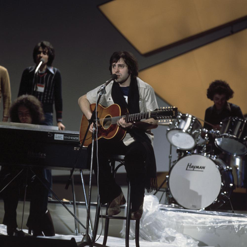 Pierre Rapsat at a rehearsal for the Eurovision Song Contest 1976.